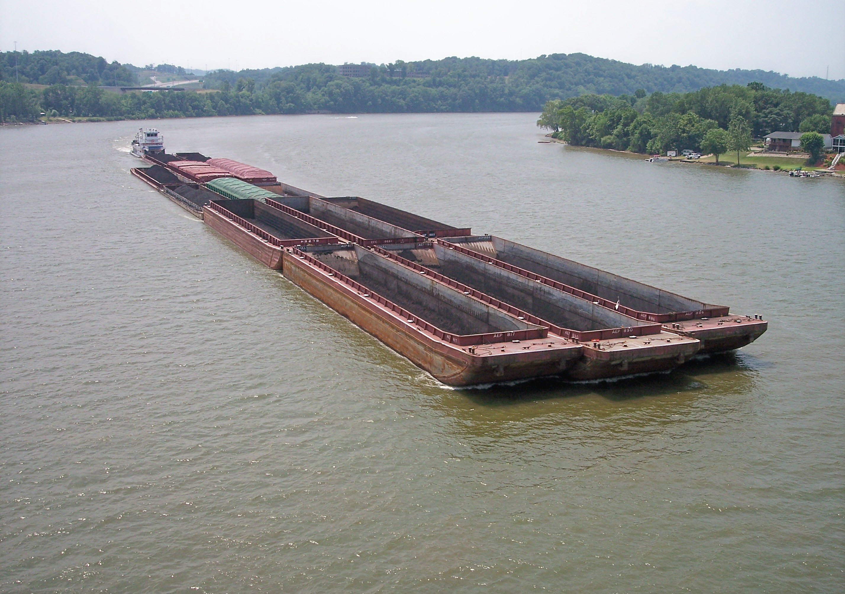 A coal barge on the Ohio River, as viewed downstream from the Belpre-Parkersburg Bridge between Parkersburg, West Virginia and Belpre, Ohio